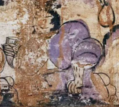 Xiang Yu depicted in Han wall picture "Feast at Hong Gate".